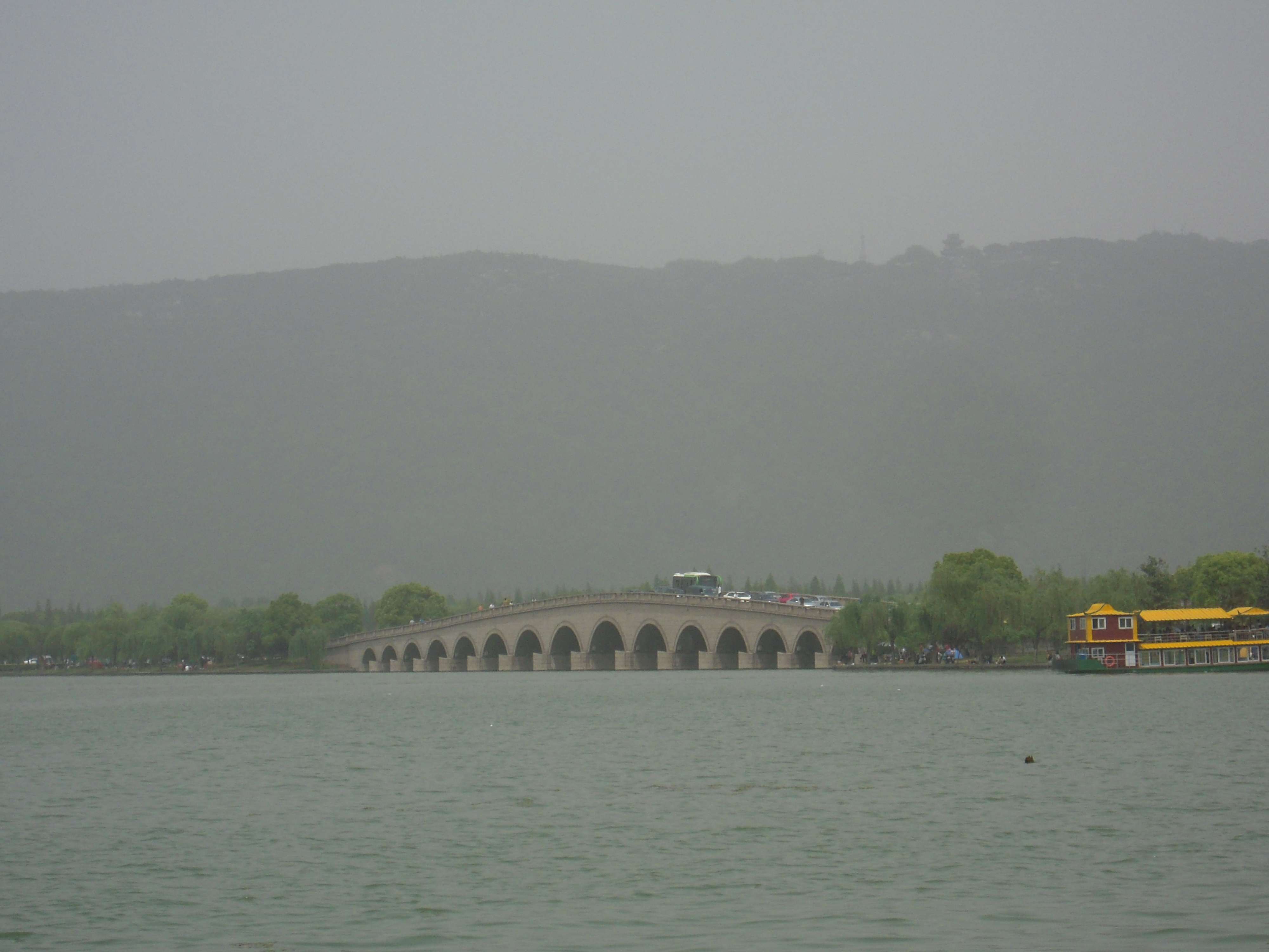 Shanghu Lack